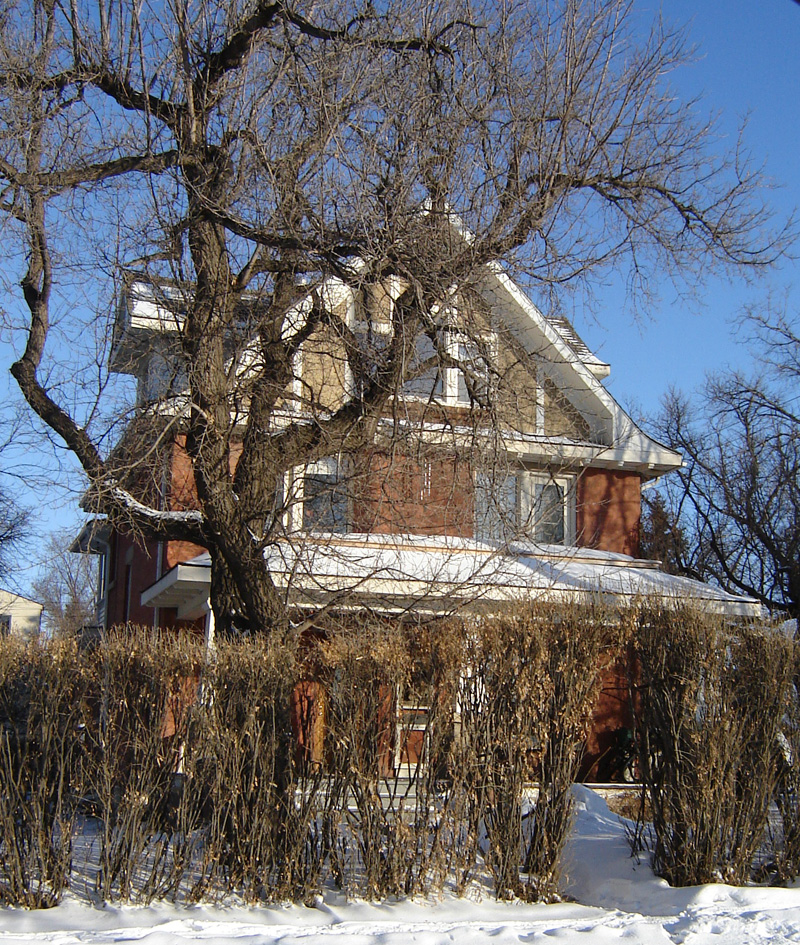 Sutherland Character Home, Sutherland University Heights SDA, Saskatoon, Saskatchewan James Dagg Powe Homestead built between 1912 and 1914. He successfully homesteaded the quarter sections at SE Section 2 Township 37 Range 5 West of the 3rd Meridian and SW Section 12 Township 37 Range 5 West of the 3rd Meridian